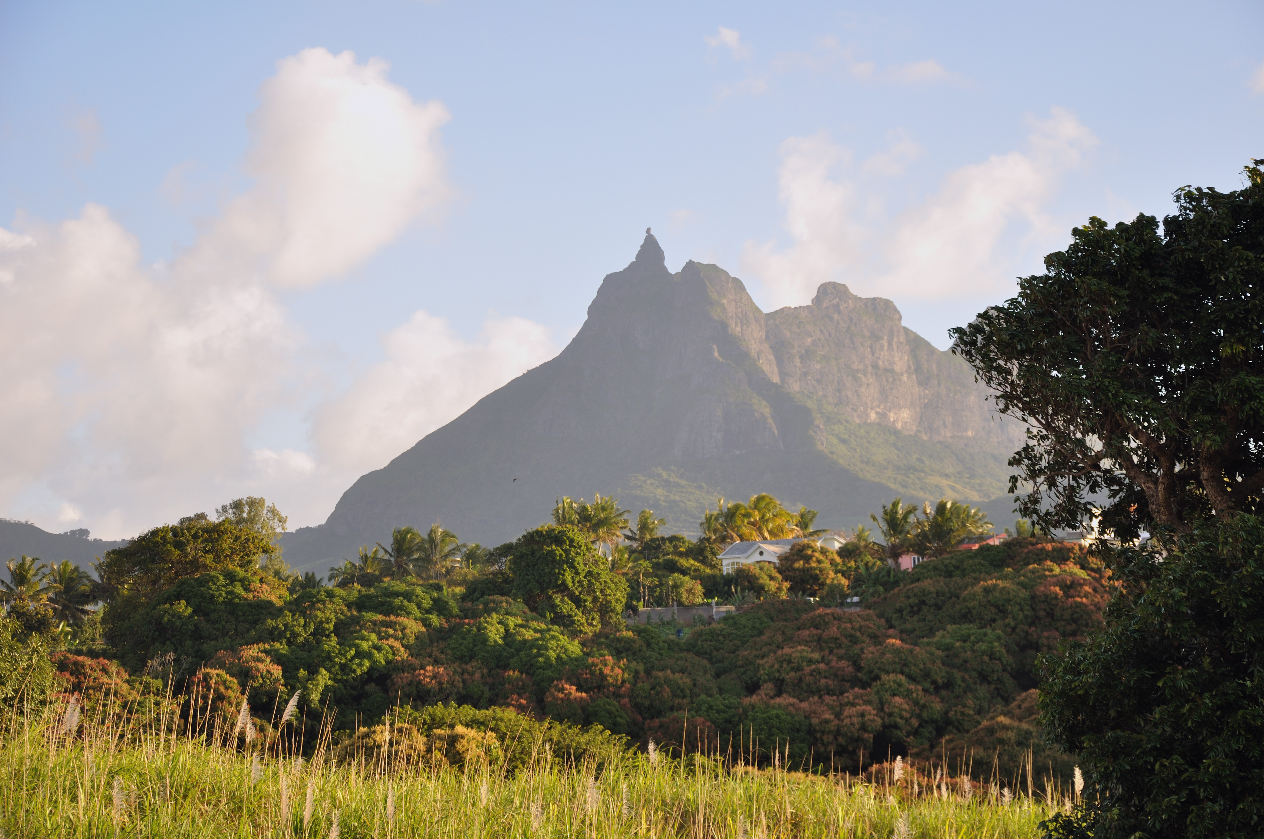 Mauritius, Sugar cane near Long Mountain